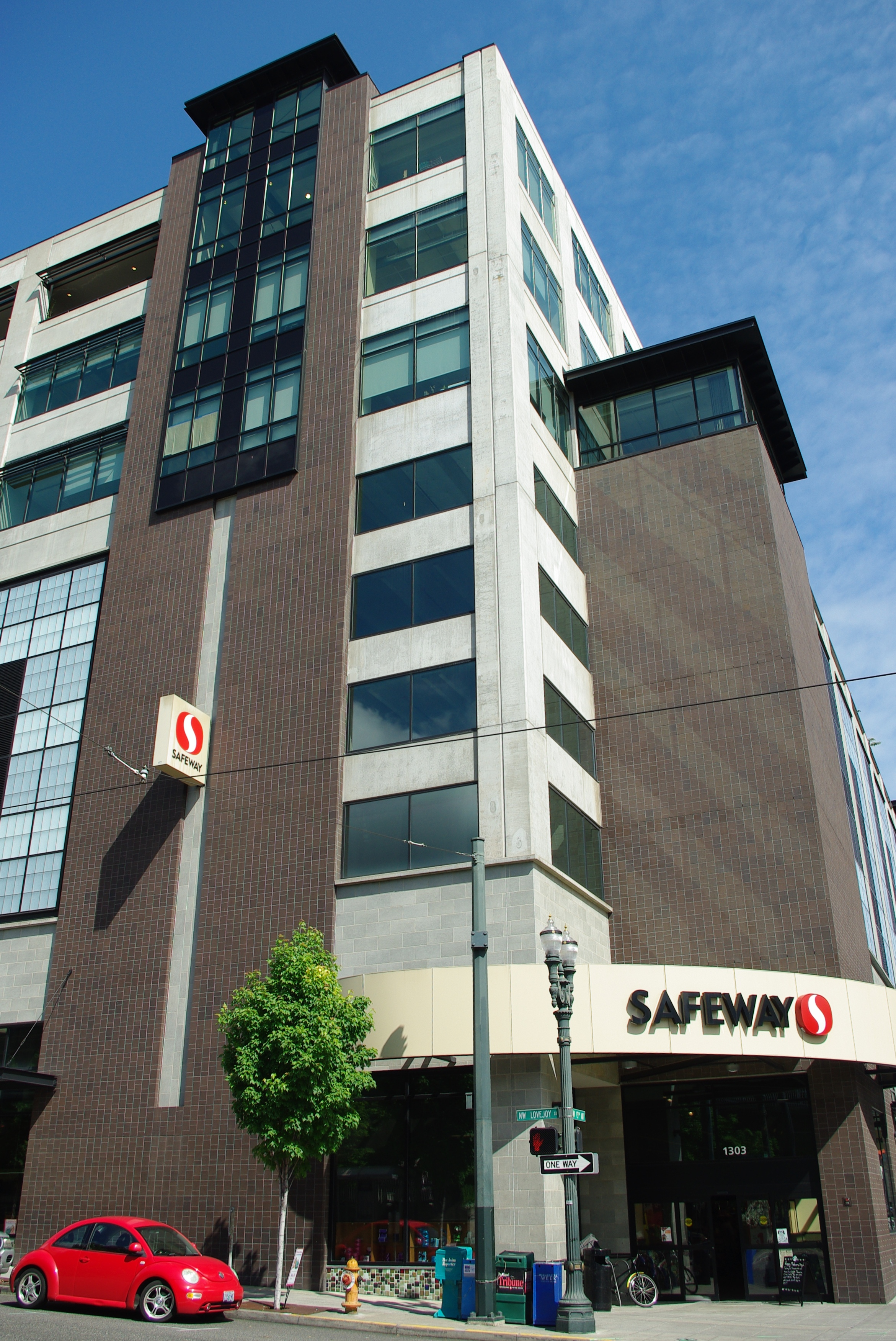 The Loveoy in the Pearl District at Lovejoy and 13th in Portland, Oregon. Includes a Safeway and office space.